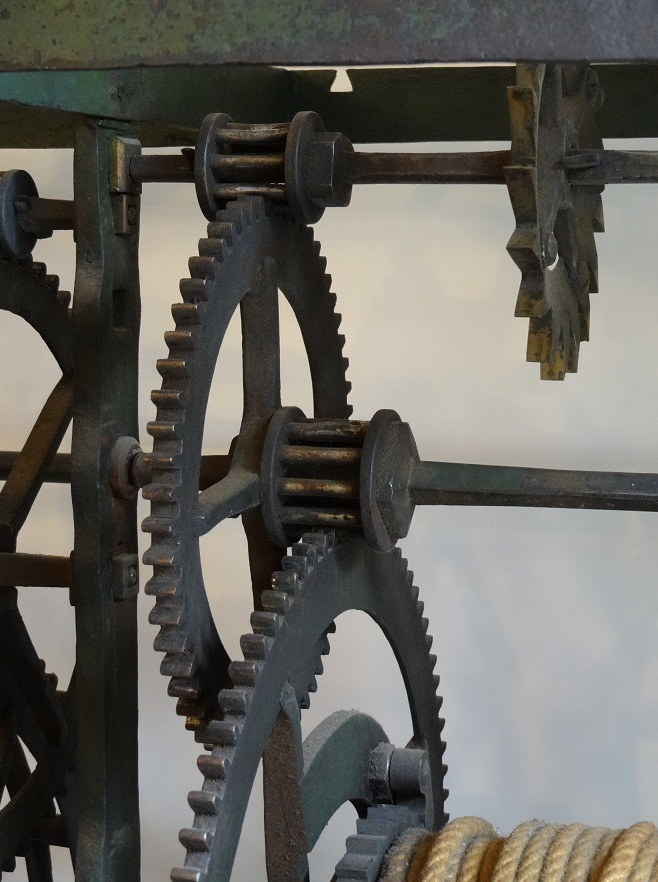 Details of of turret clock showing its lantern gears (or pinions). Pascal adapted this kind of gear when he designed his calculator in 1642.